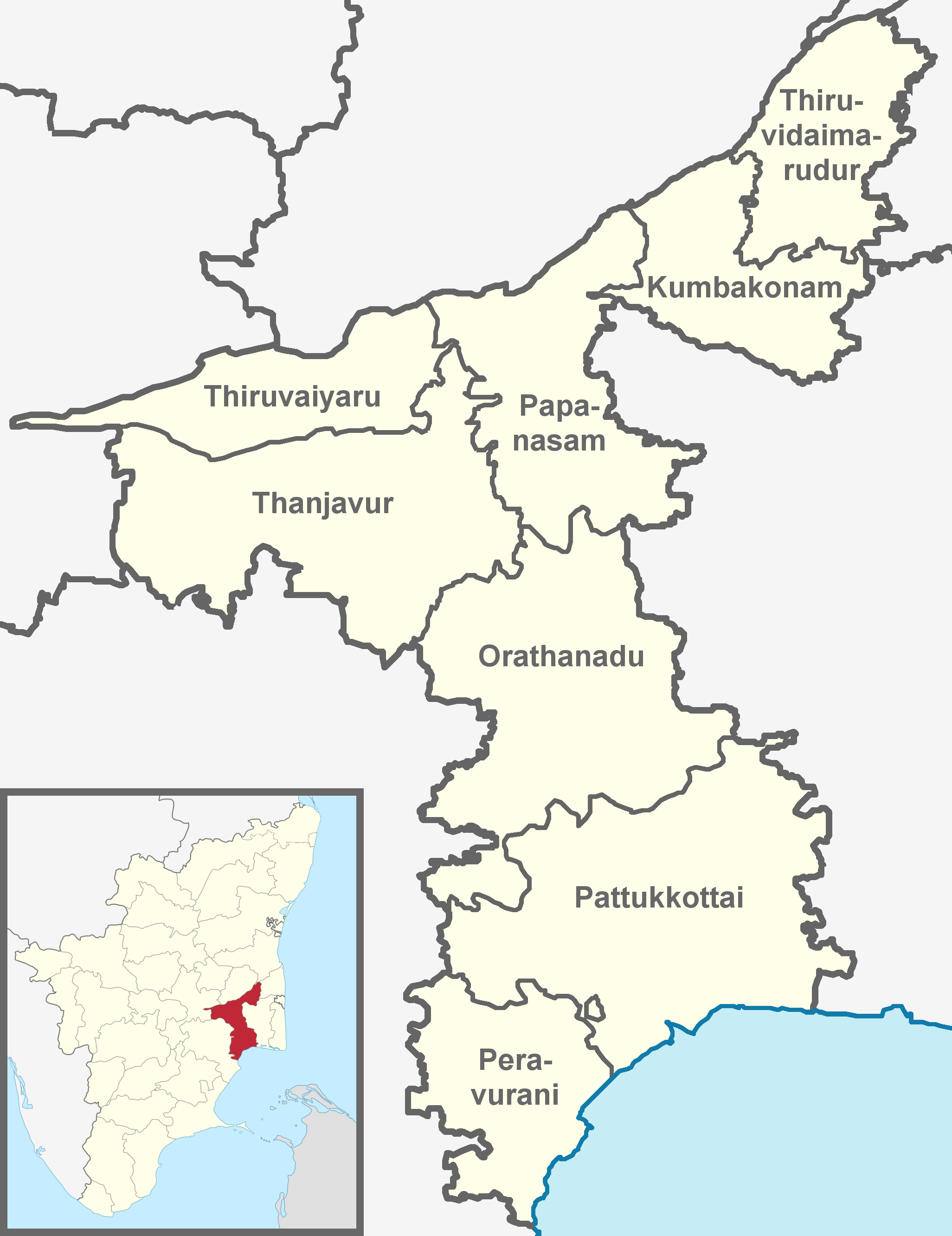 Location of Kumbakonam taluk in Thanjavur district (Tamil Nadu, India)